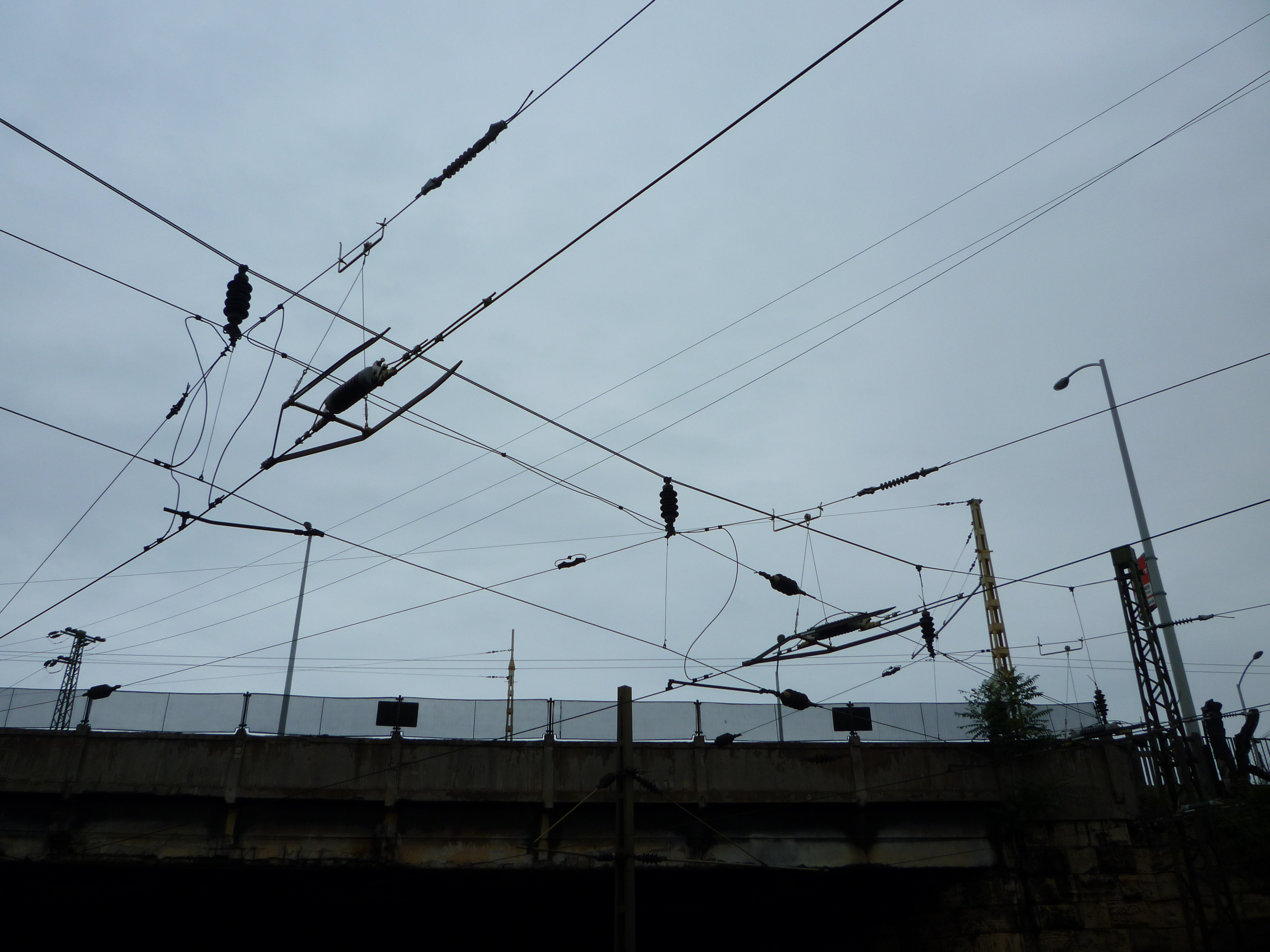 Neutral section on the overhead catenary at Budapest East railway station.